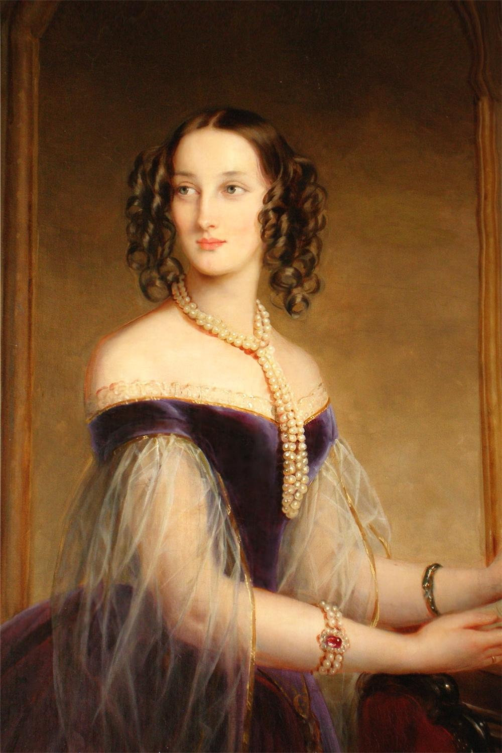 Grand Duchess Maria Nikolaevna of Russia, Duchess of Leuchtenberg.